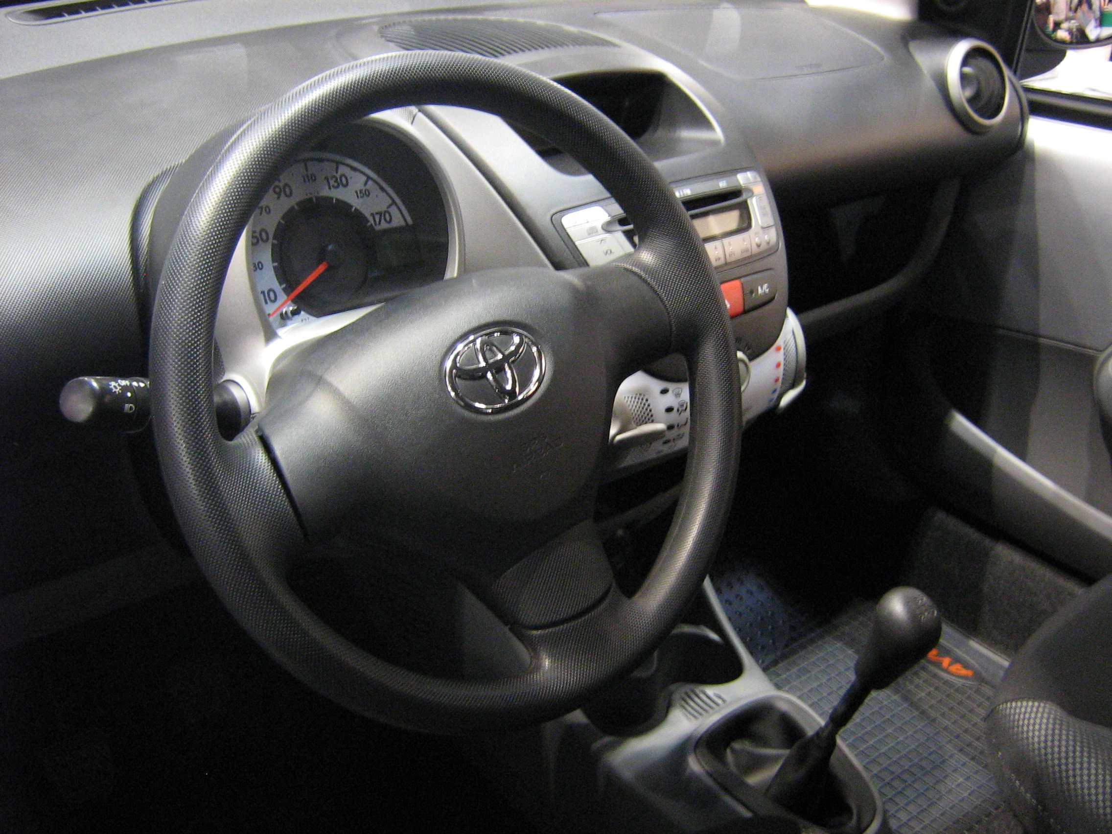 Toyota Aygo 5D Facelift interior - TTM 2009 in Poznan.